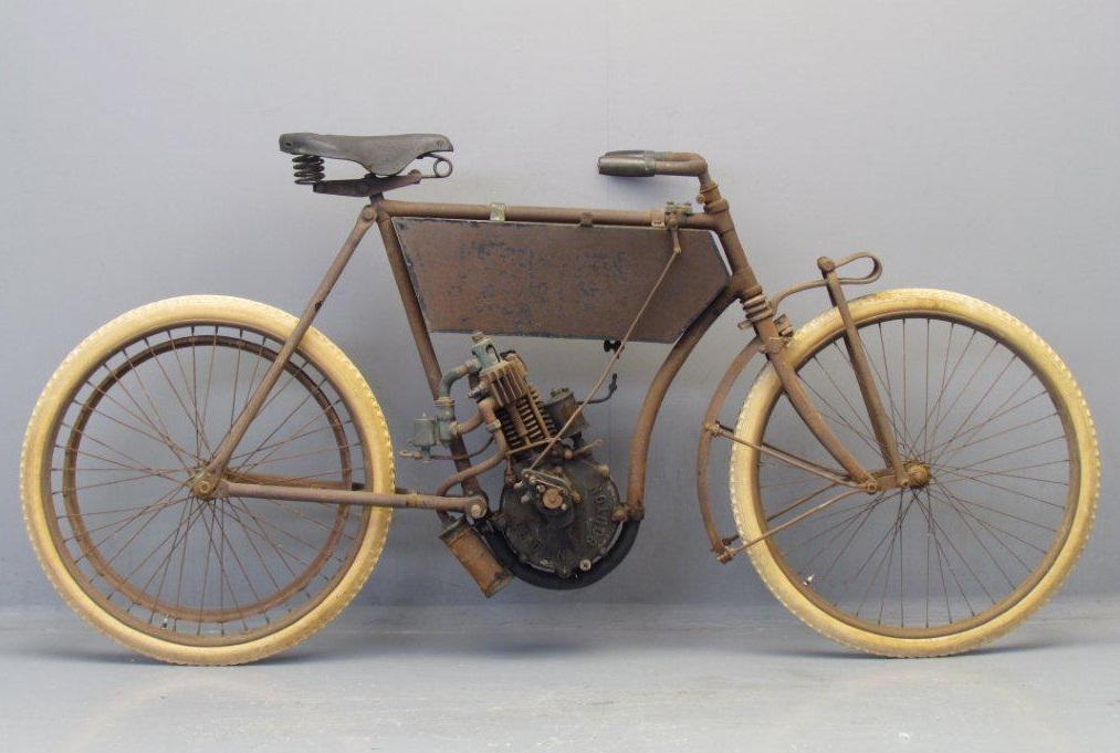 Verschaeve & Truffaut 400 cc motorcycle from 1902 with De Dion-Bouton AIV (Automatic Inlet Valve)-engine